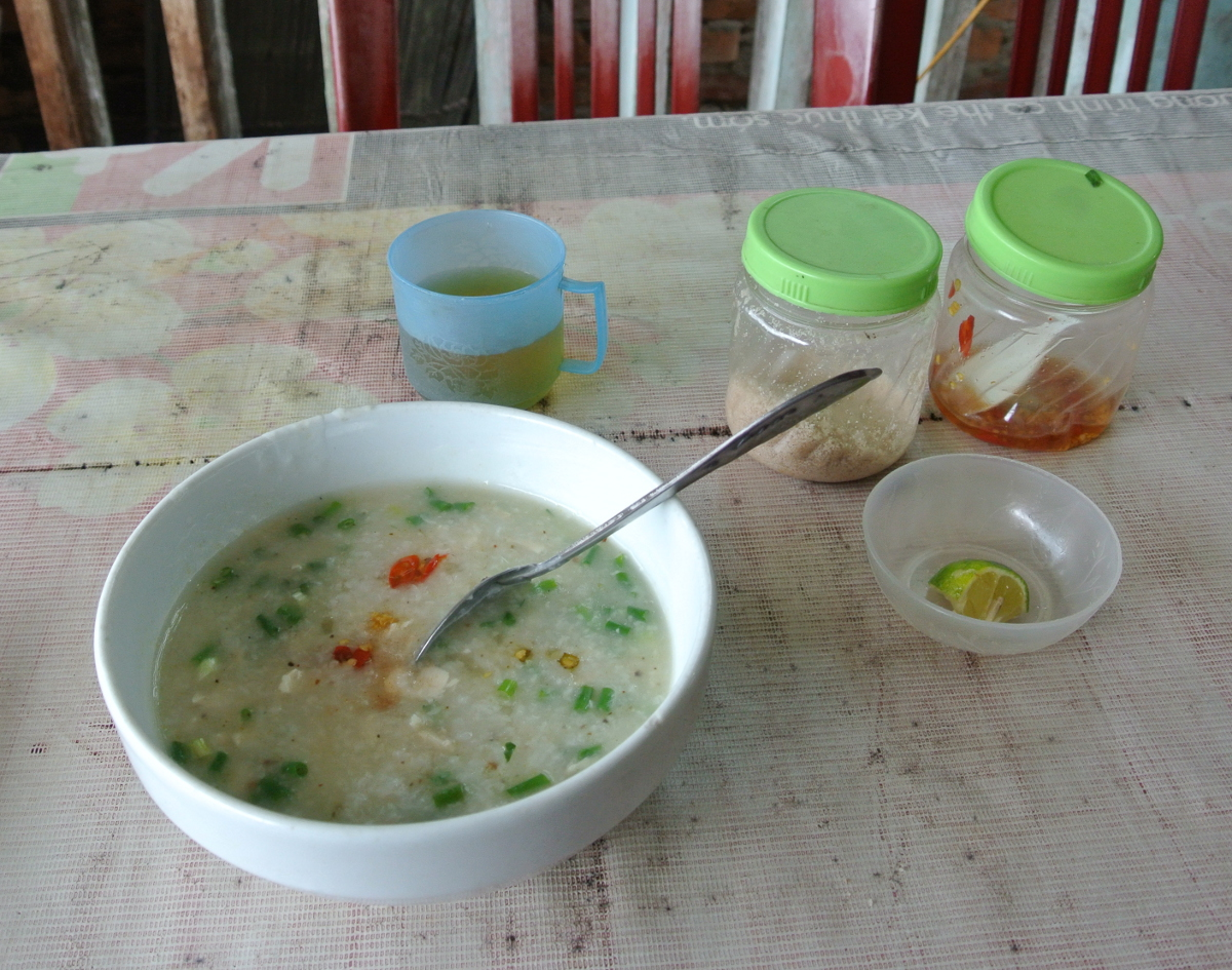 Rice poridge at Vietnam. at Cam Xuyen, Ha Tinh.